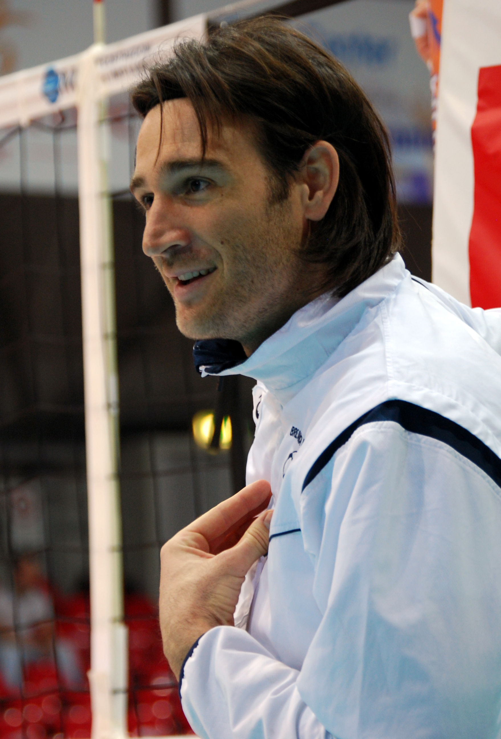 I took this photo during a volleyball match in Piacenza